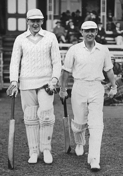 19th May 1926: Australia v Cambridge University at Cambridge, G H Lowe and E W Dawson (Cambridge) out to bat.